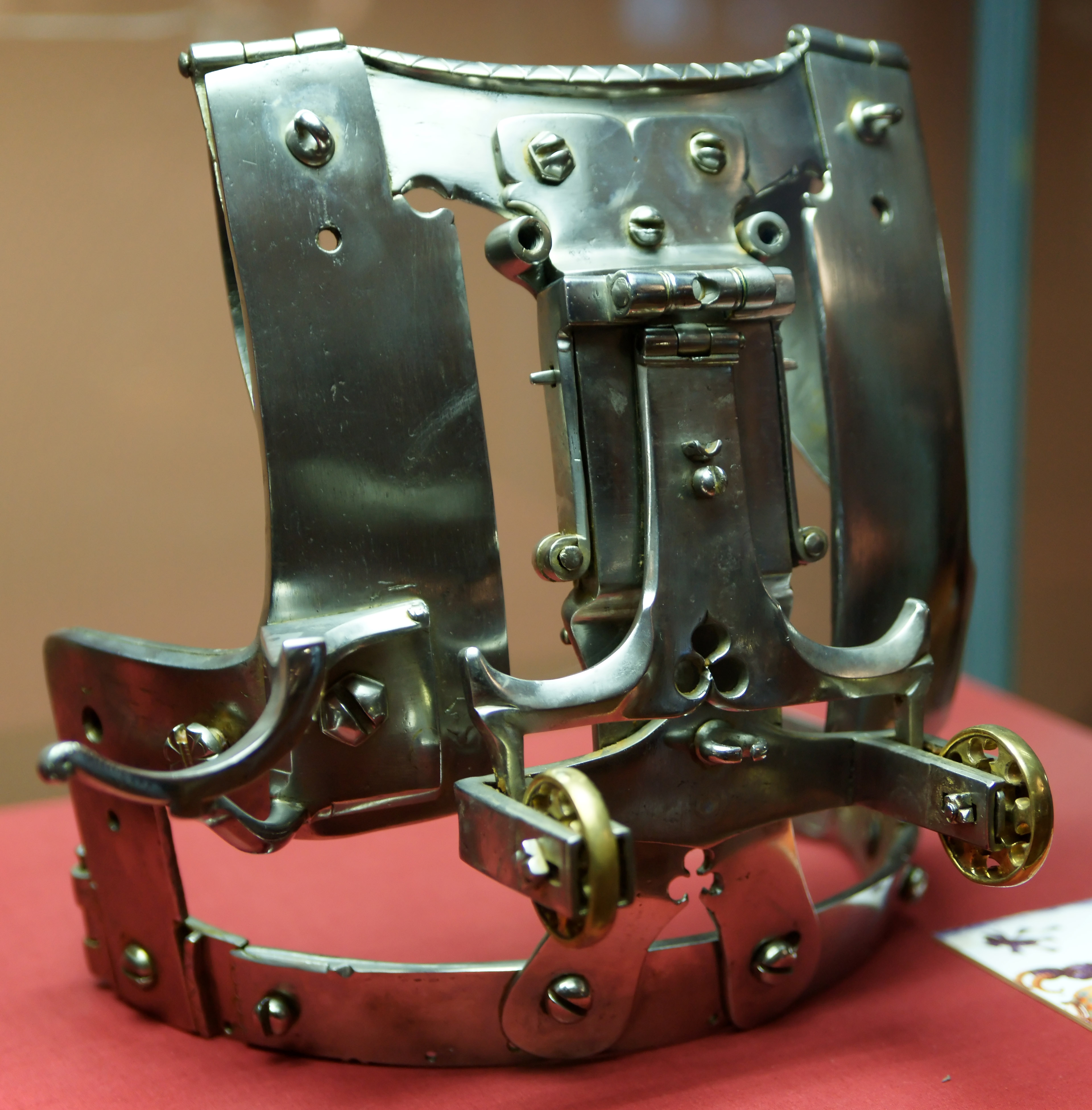 Mechanical breastpiece of Emperor Maximilian I for the Bundrennen contest. It is designed to throw off a breast-mounted shield if correctly hit with the lance.